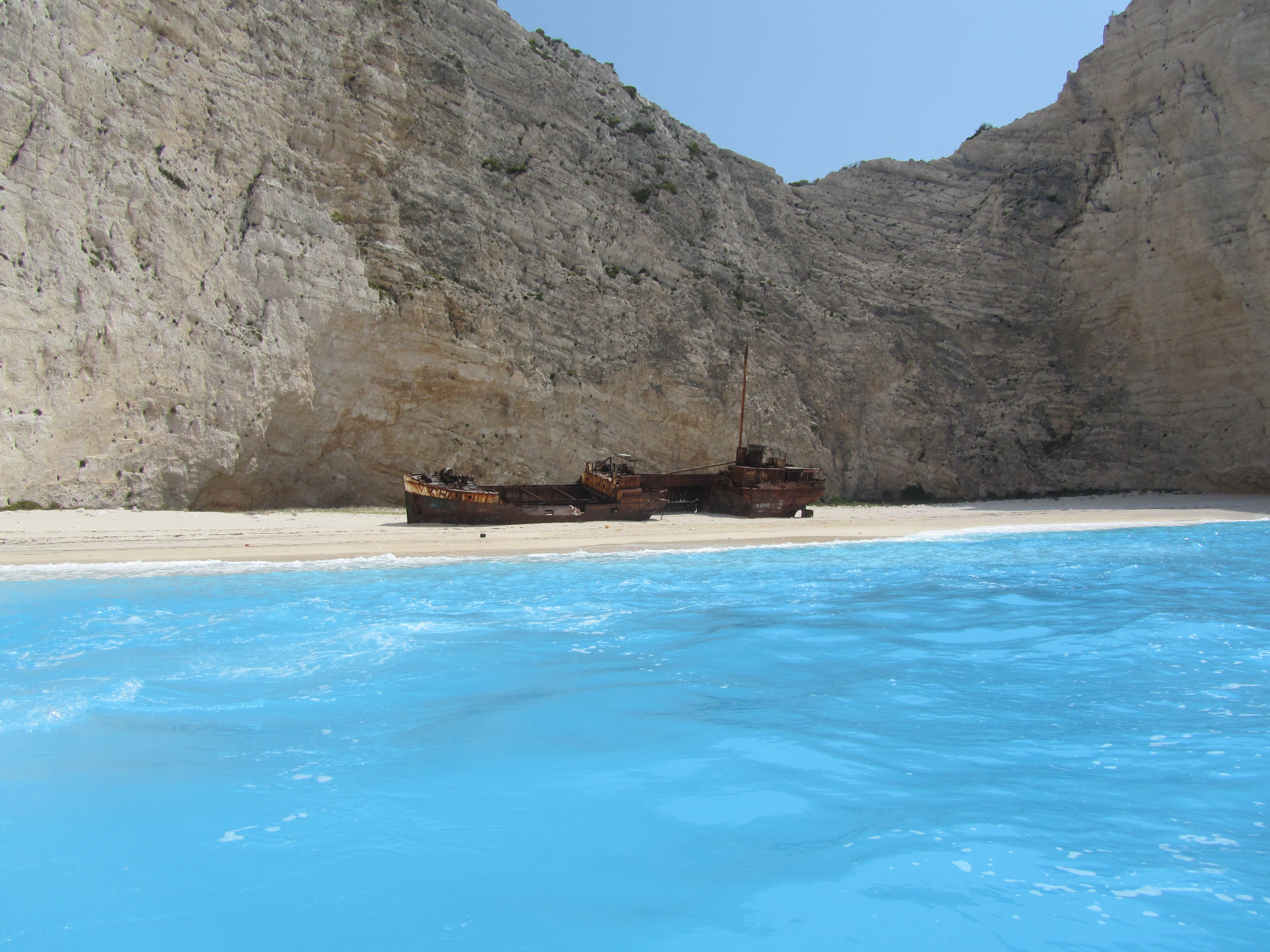 Navagio Beach and Shipwreck of the Panagiotis at 'Smugglers Cove' Zakynthos